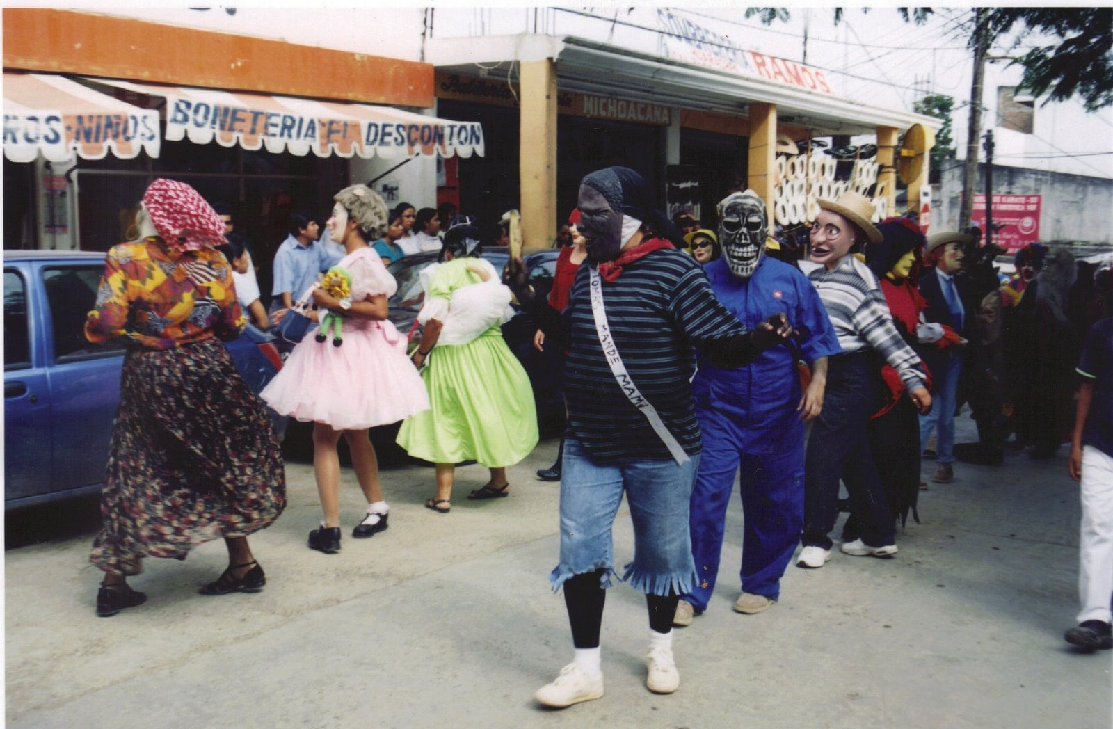 viejos